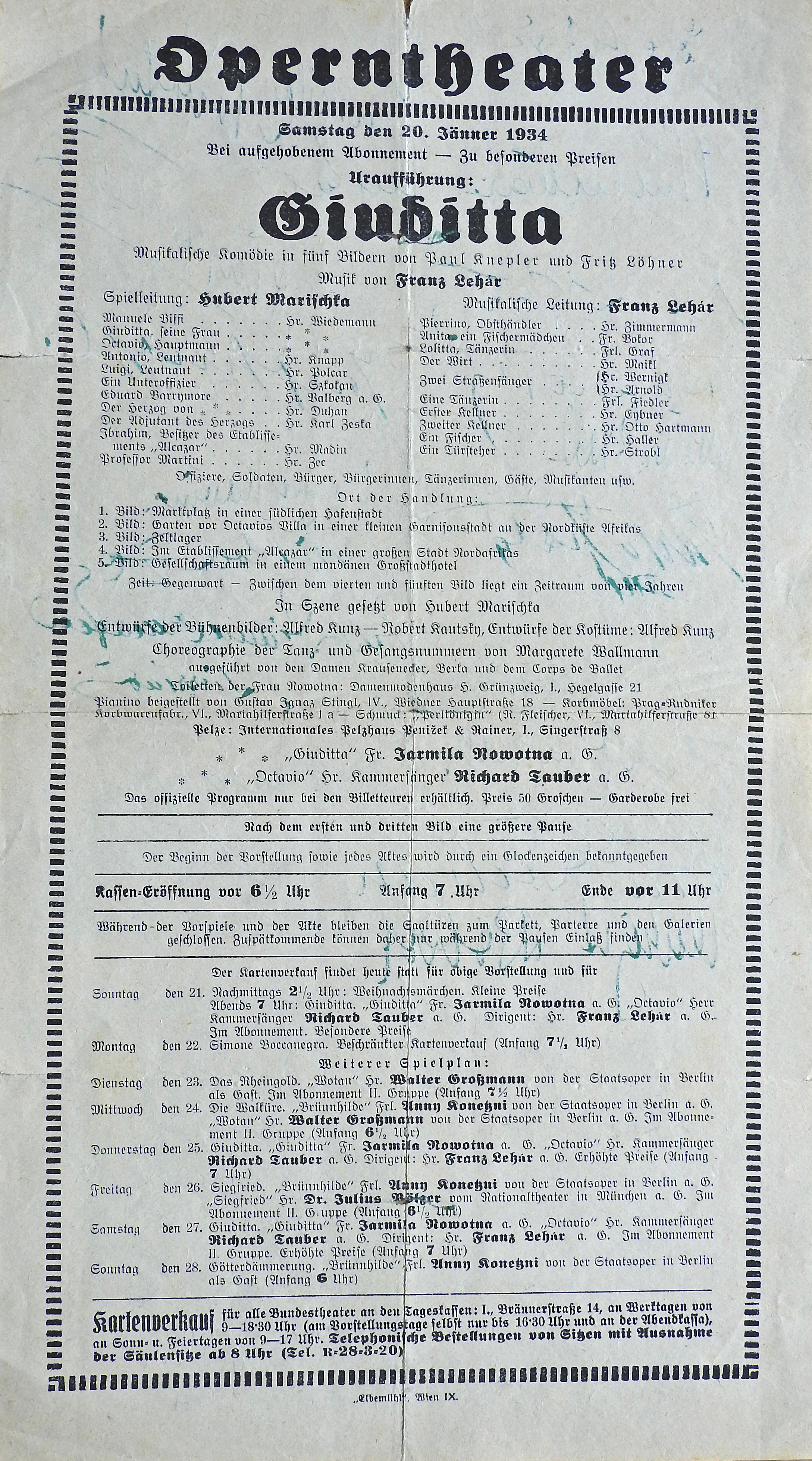 Giuditta, Operetta. Music by Franz Lehar. Program for the first night in the Vienna Opera House (January 20th in 1934).